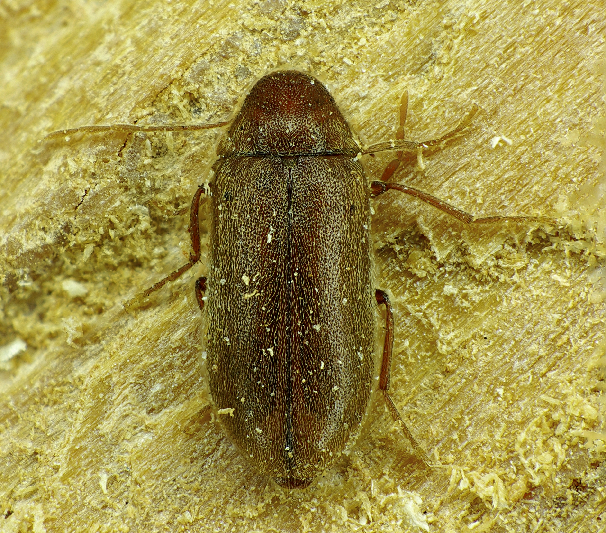 Ernobius mollis